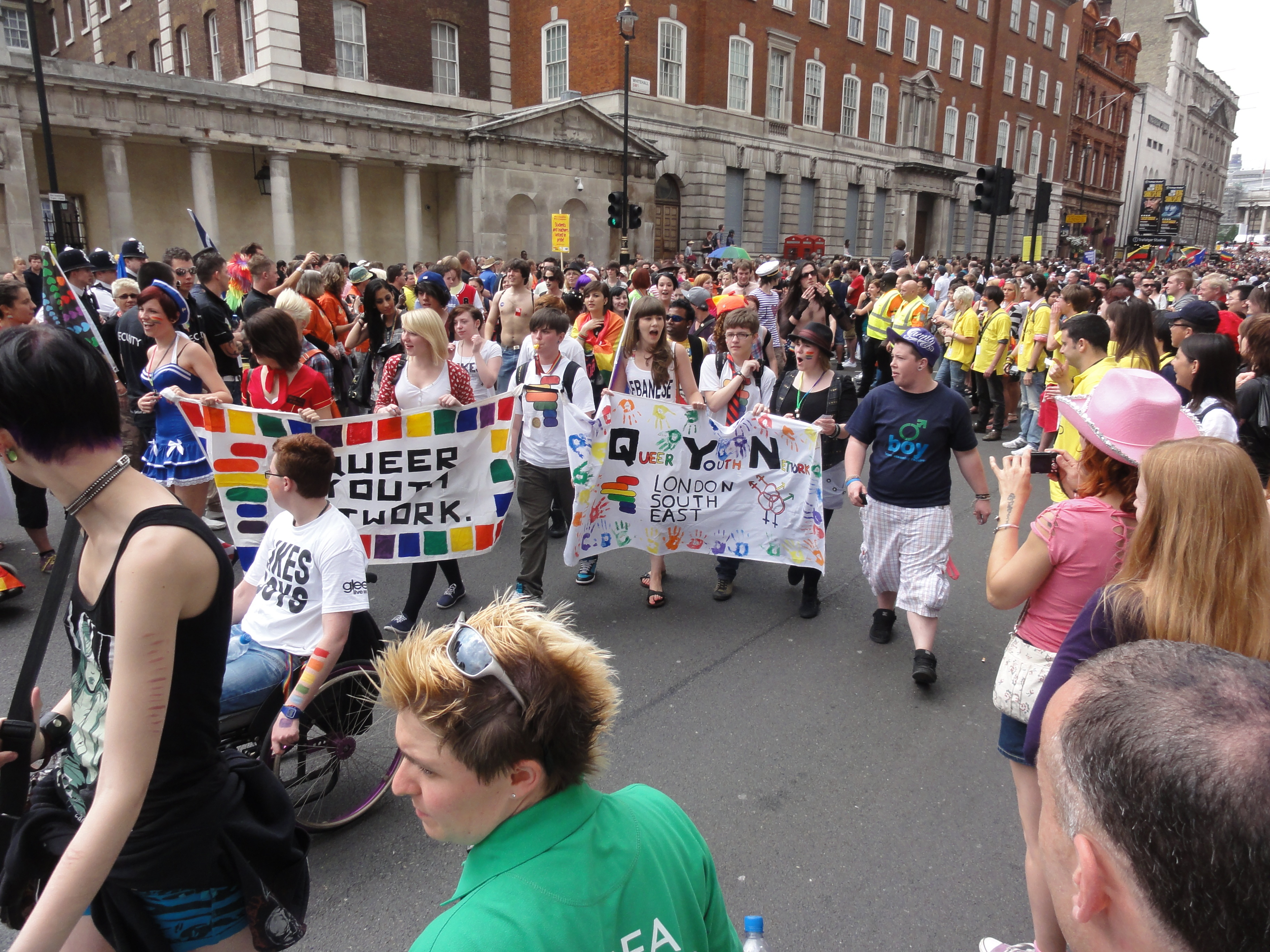 The Queer Youth Network proudly marching down Whitehall.